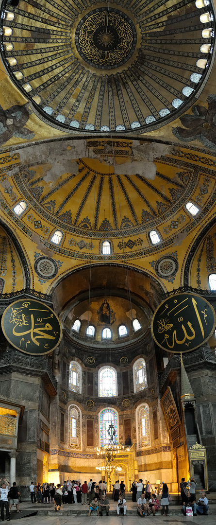 Vertical panoramic vue, inside the Hagia Sophia.